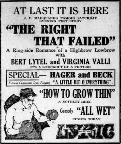 Newspaper advertisement for the American melodrama film The Right That Failed (1922) with Bert Lytell, on page 9 of the June 24, 1922 Duluth Herald.